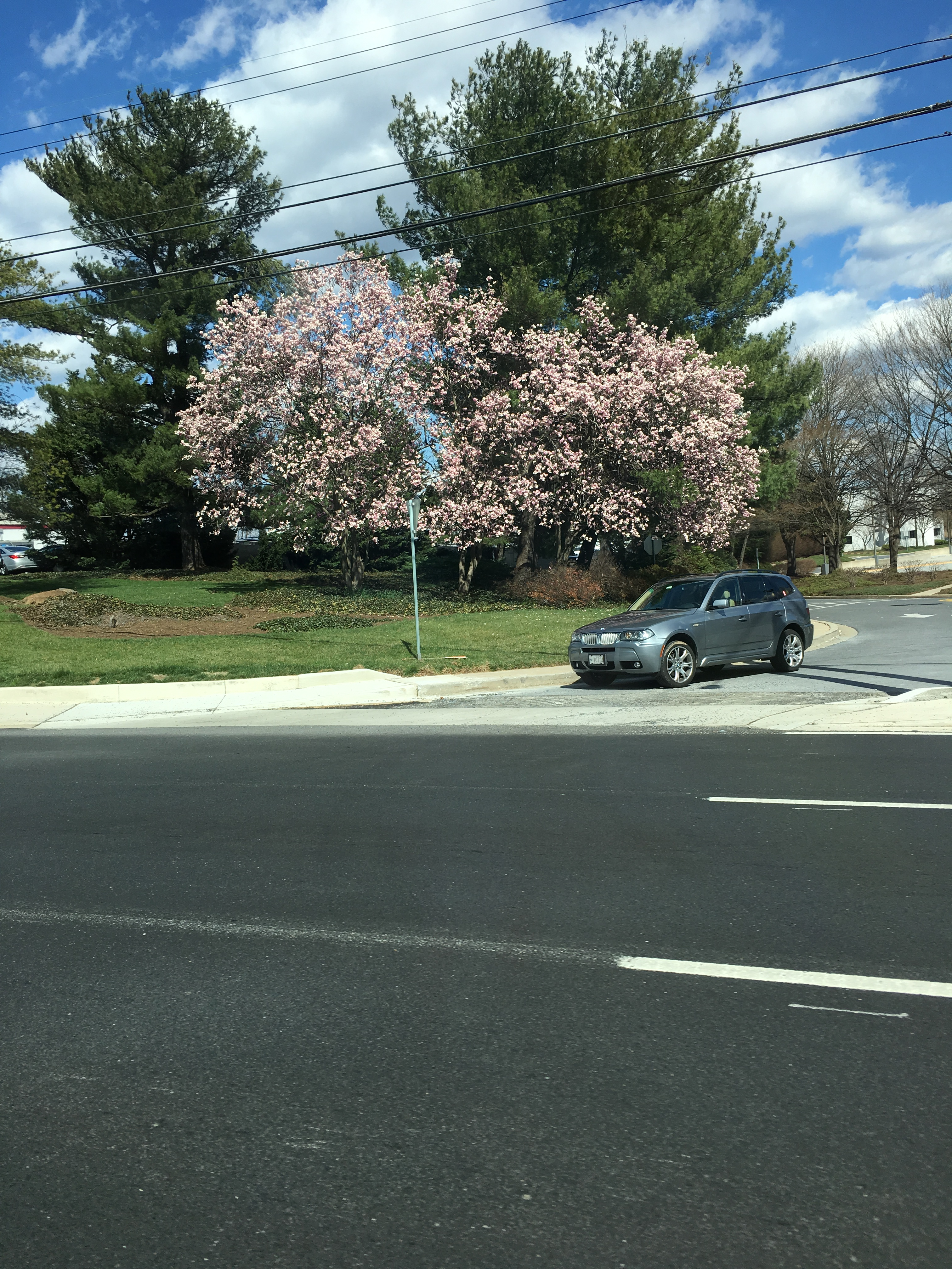 Cherry Blossoms in Rockville, MD, near White Flint Mall. Taken in 2016.